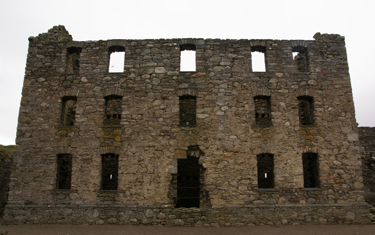 Ruthven Barracks, Ruthven, Scotland